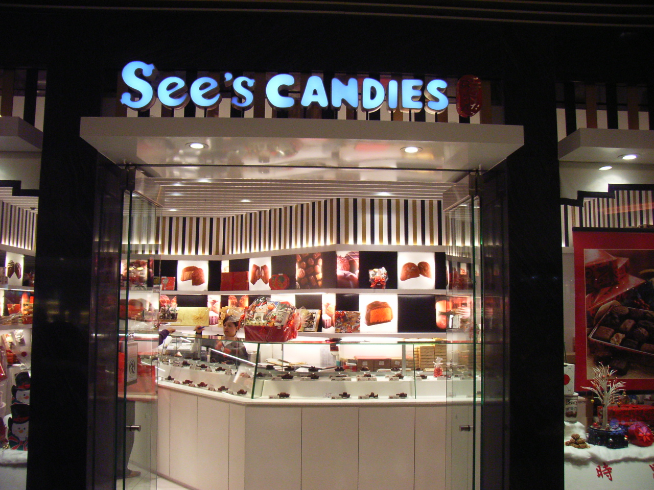 西九龍Union Square圓方商場 See's Candies shop